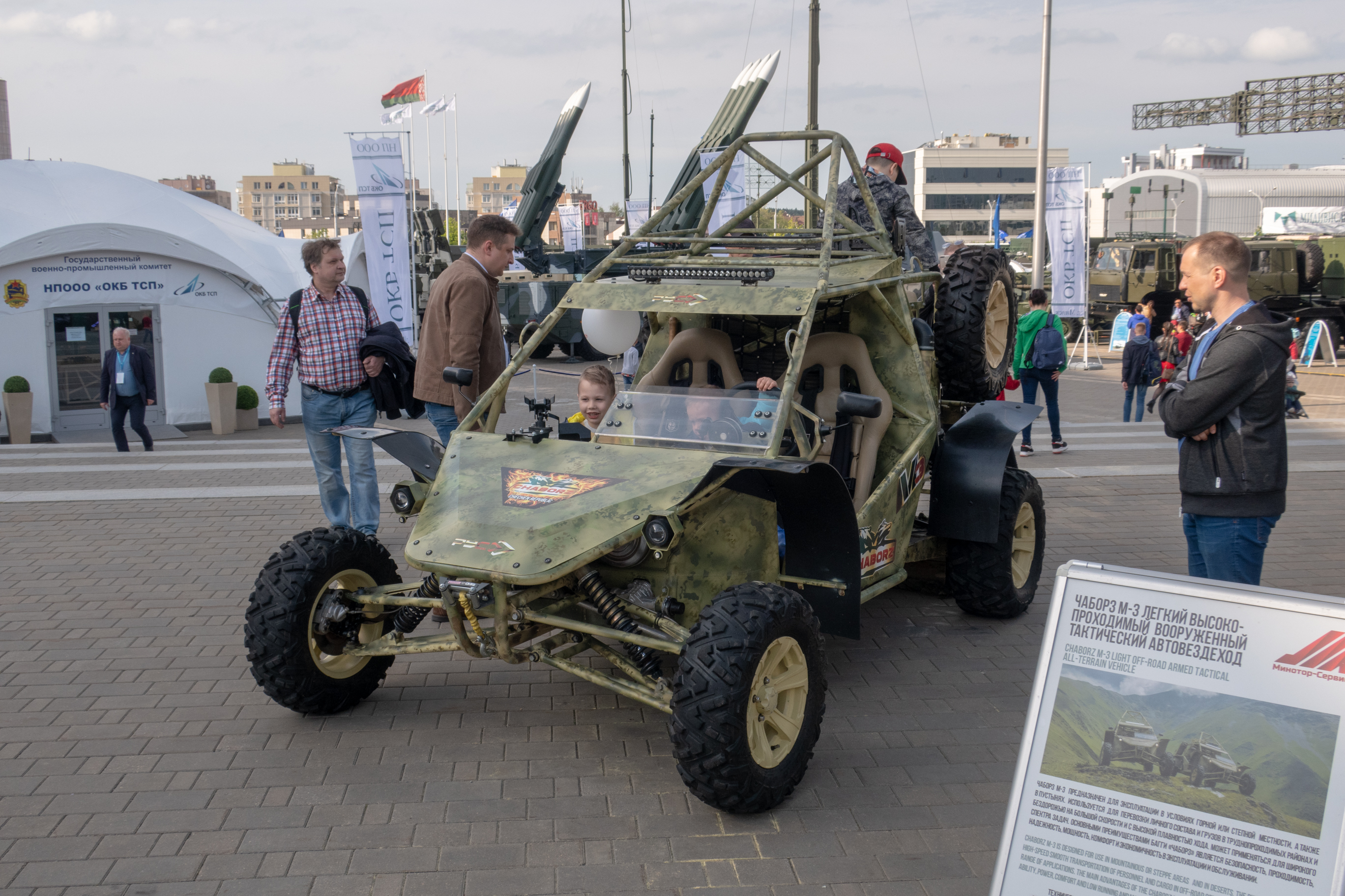 Chaborz M-3 light off-road tactical vehicle at Milex-2019 exposition (Minsk, Belarus)